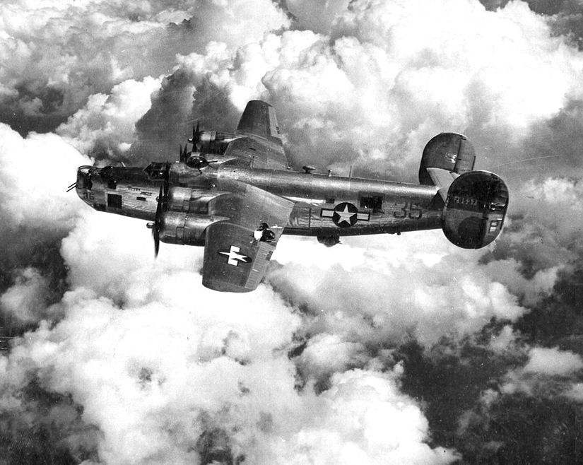 "Extra Joker" Ford B-24H-30-FO Liberator s/n 42-95379 725th Bomb Squadron, 451st Bomb Group, 15th Air Force. This aircraft is pictured just moments before it burst into flames and went out of control, all 10 crew members were KIA. It was attacked by Fw-190s over Turnitz,Austria on August 23,1944. You can see the fire that had just started on the left wing behind the #1 engine